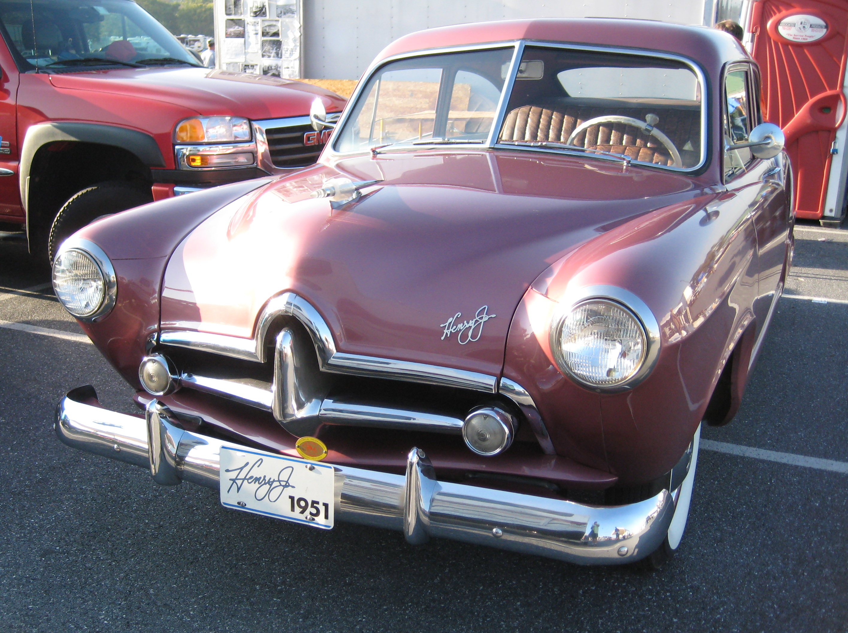 1951 Henry J.